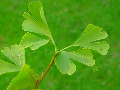 Leaves of Ginkgo biloba